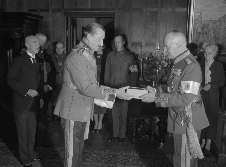 Mannerheim presents a gift to his friend major general Rudolf Walden on his 60th birthday.